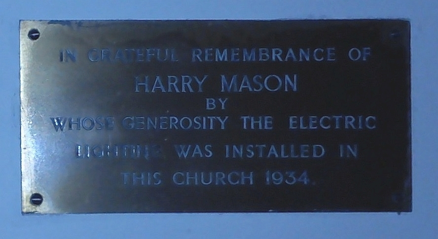 Hagley, Worcerstershire: St John the Baptist - interior, tablet commemorating the Installation of electric light